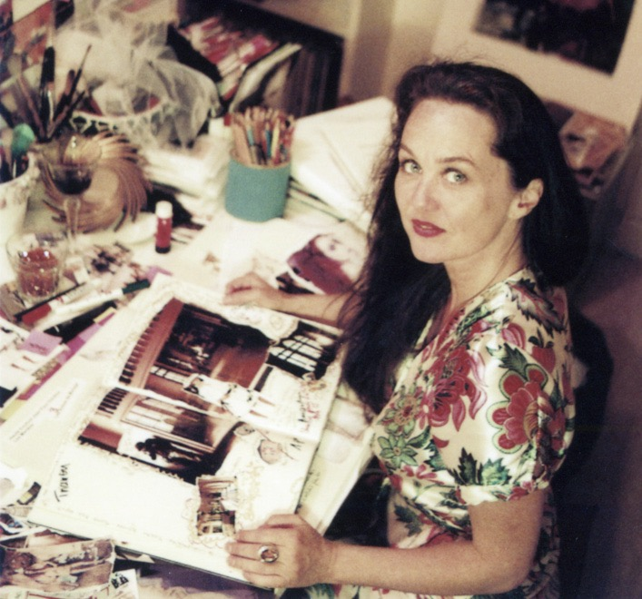 cathleen